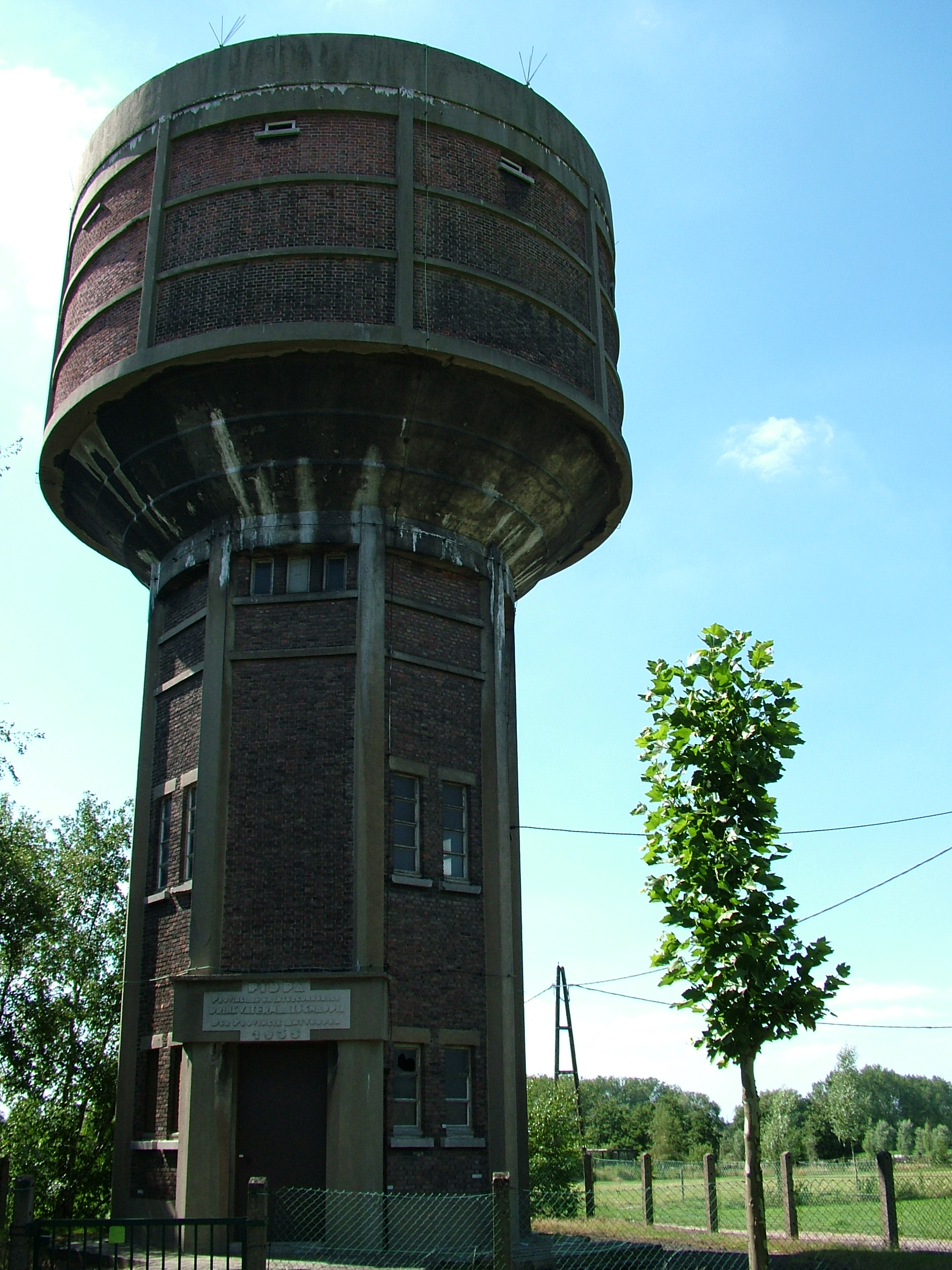 Water tower of Boom, Belgium. As can be clearly seen on the picture, the old PIDPA water tower is in bad condition.